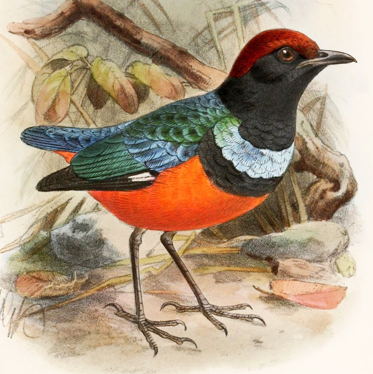 Erythropitta dohertyi (syn. Erythropitta erythrogaster dohertyi), Sula Pitta